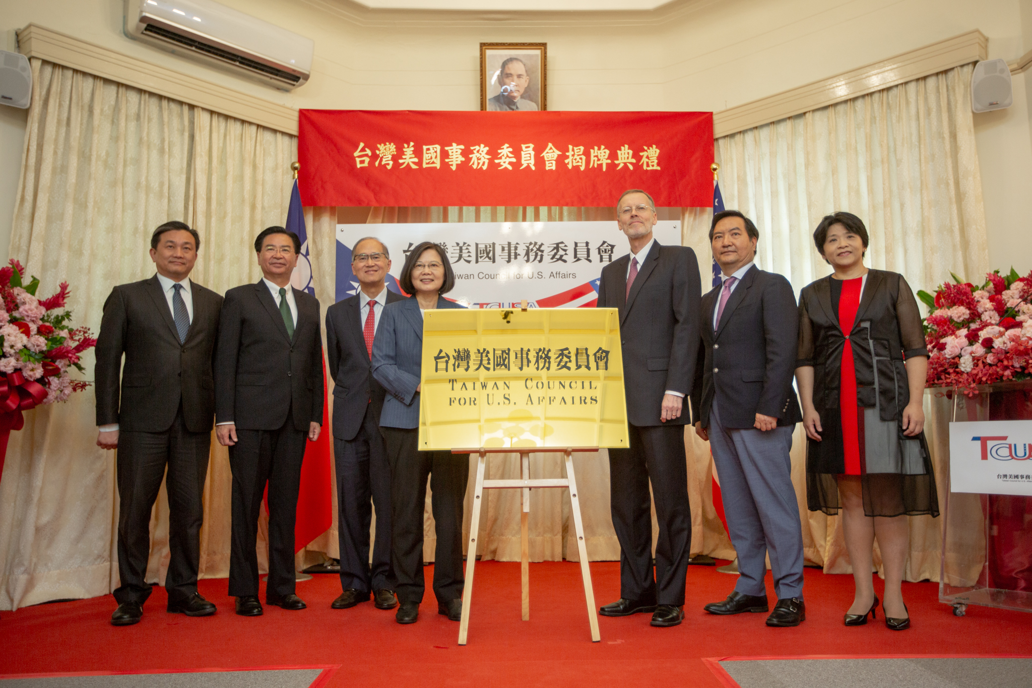 Official Photo by Wang Yu Ching / Office of the President